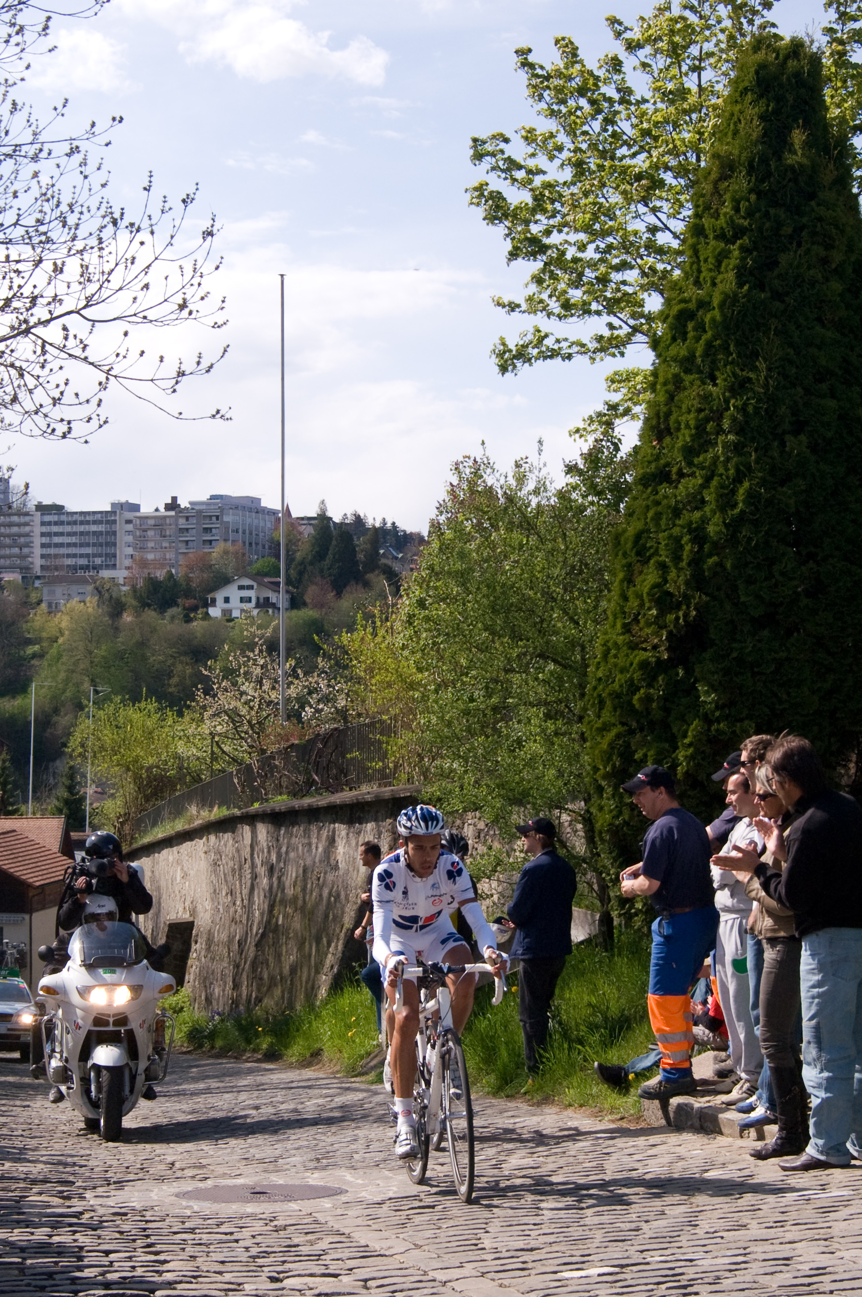 2nd stage of the Tour de Romandie 2008.